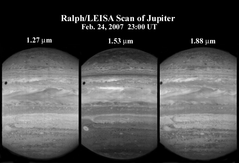 On February 24, 2007, the LEISA (pronounced "Leesa") infrared spectral imager in the New Horizons Ralph instrument observed giant Jupiter in 250 narrow spectral channels. At the time the spacecraft was 6 million kilometers (nearly 4 million miles) from Jupiter; at that range, the LEISA imager can resolve structures about 400 kilometers (250 miles) across. LEISA observes in 250 infrared wavelengths, which range from 1.25 micrometers (µm) to 2.50 µm. The three images shown above from that dataset are at wavelengths of 1.27 µm (left), 1.53 µm (center) and 1.88 µm (right). The bright areas in the image frames are caused by solar radiation reflected from clouds and hazes in Jupiter's atmosphere. Dark areas correspond to atmospheric regions where solar radiation is absorbed before it can be reflected. The dark circular feature in the upper left of all three images is the shadow of Jupiter's innermost large moon, Io. Light at 1.53 µm (center frame) comes from relatively high in the atmosphere. The other two channels probe deeper atmospheric levels. Features that are bright in all three pictures come from high-altitude clouds. Features that are bright in the 1.27 and 1.88 µm channels, but darker in the 1.53-µm channel come from lower clouds. For example, there is an isolated circular feature (the "Little Red Spot") in the lower left of the 1.53-µm image. In the 1.27 and 1.88 µm data, this circular feature is surrounded by other structures. The implication is that the "Little Red Spot" is caused by a system that extends far up into the atmosphere, while other structures are lower. At closest approach to Jupiter on February 28, at a distance of about 2.5 million kilometers (1.4 million miles), LEISA's resolution was about three times better than it was on February 24. LEISA images made at that far-better resolution are still stored in the spacecraft's data recorder, awaiting downlink from New Horizons.